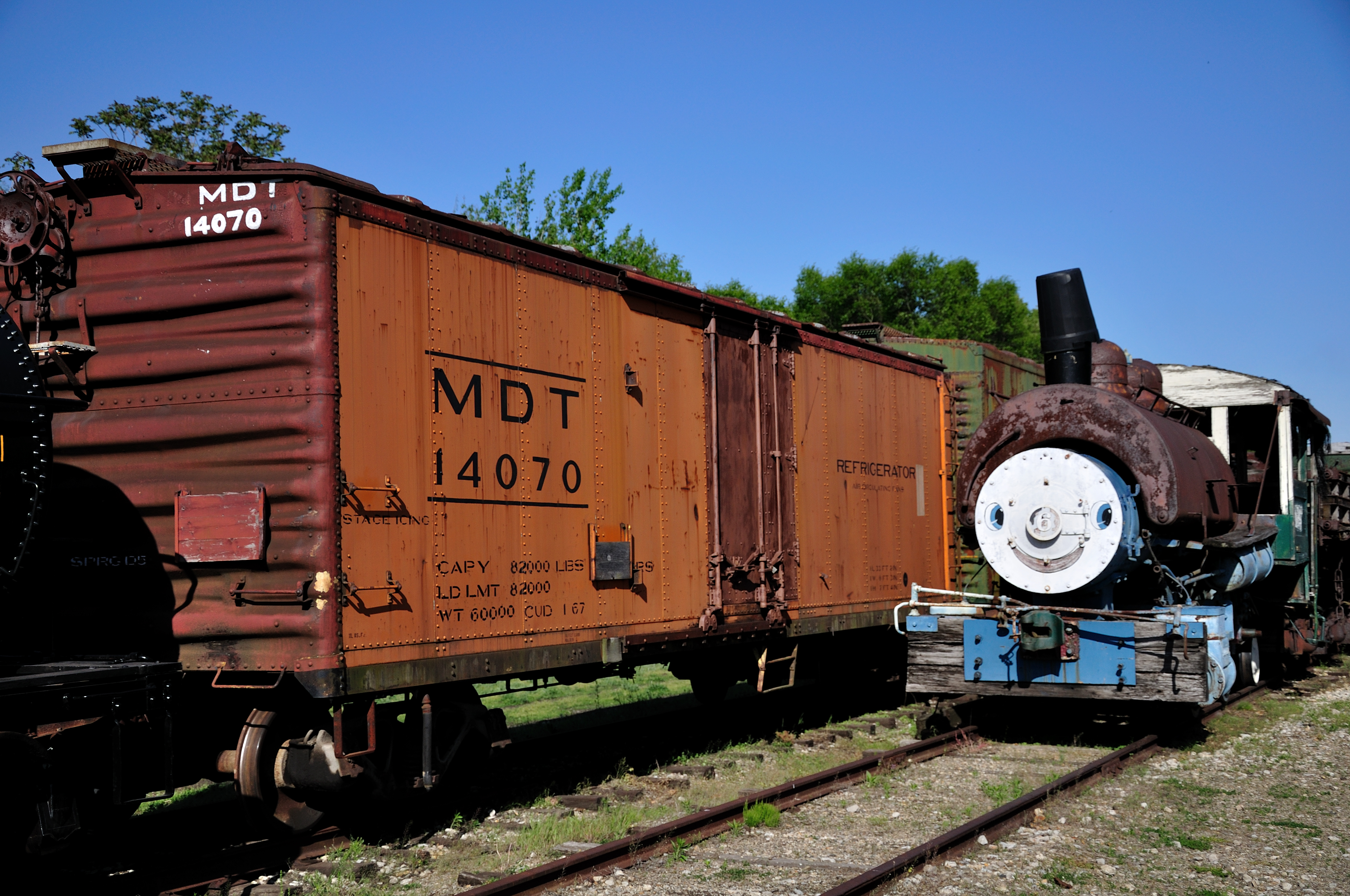 Built in August of 1958 as NRC no. 20063, the car was donated to the museum by MDT and arrived April 8, 1995.